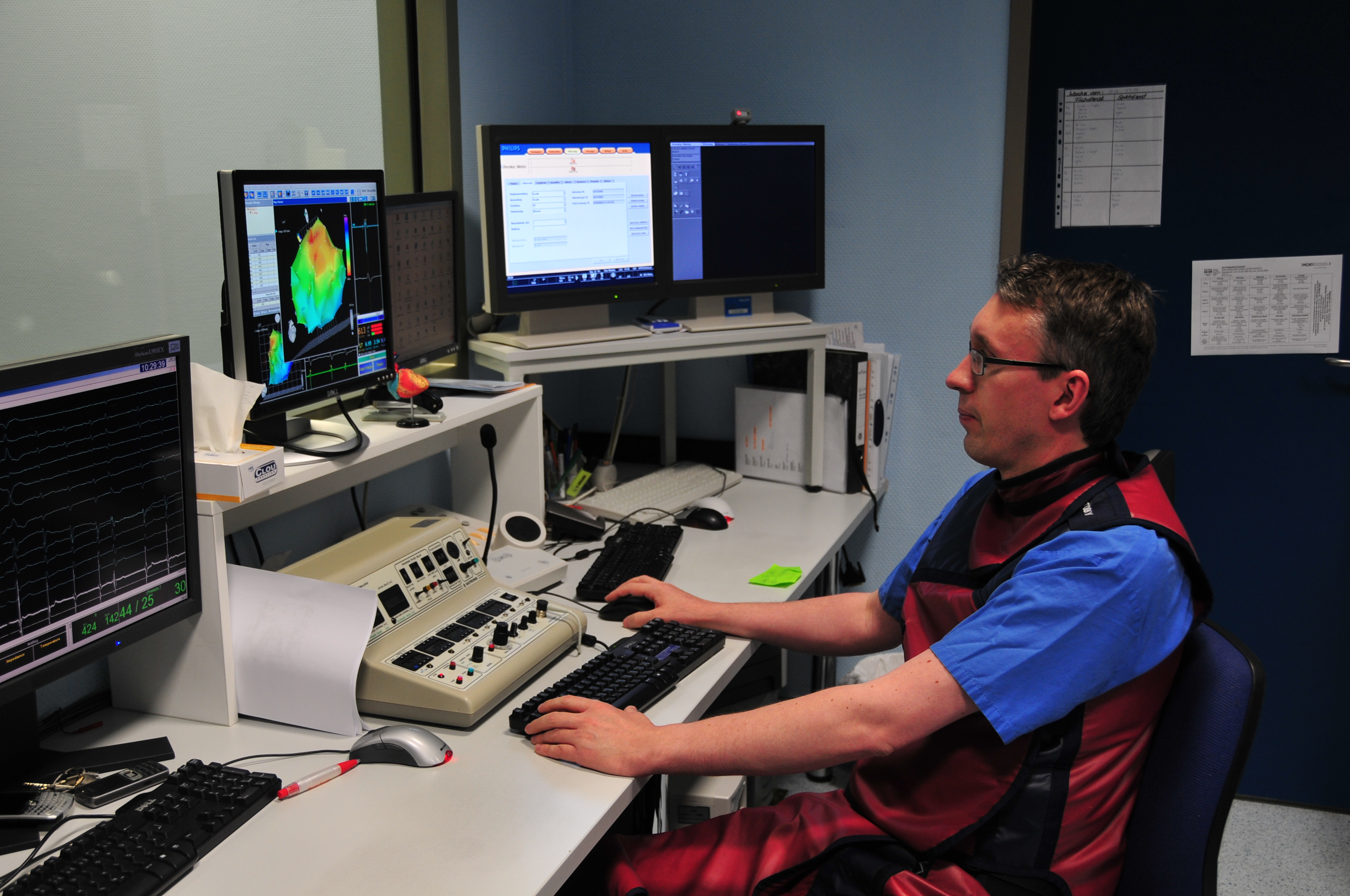 Heart Center, University Medical Center Hamburg-Eppendorf photo author: Dr. Alla Adams, June 2009.